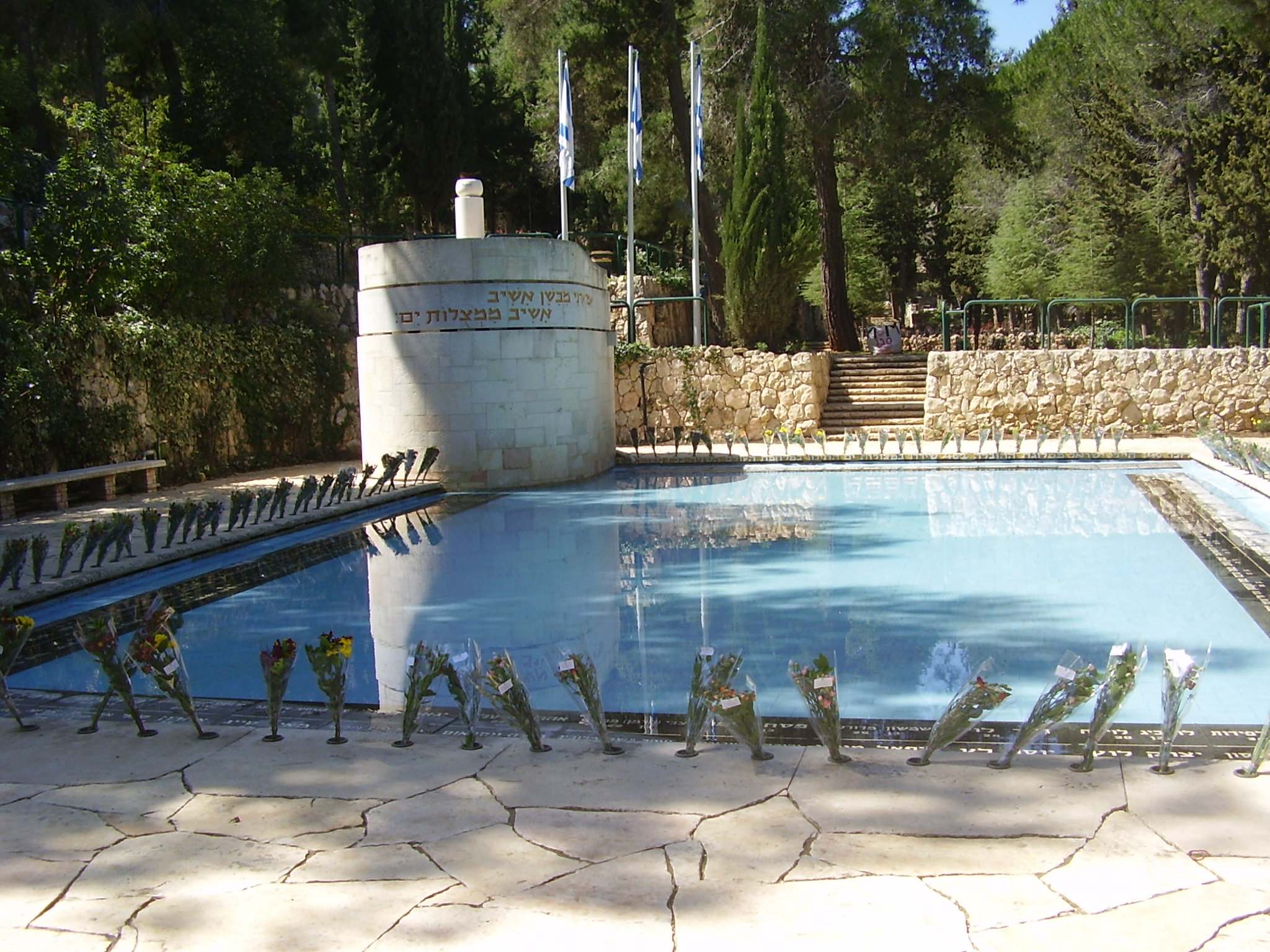 SS Erinpura memorial on mount herzl